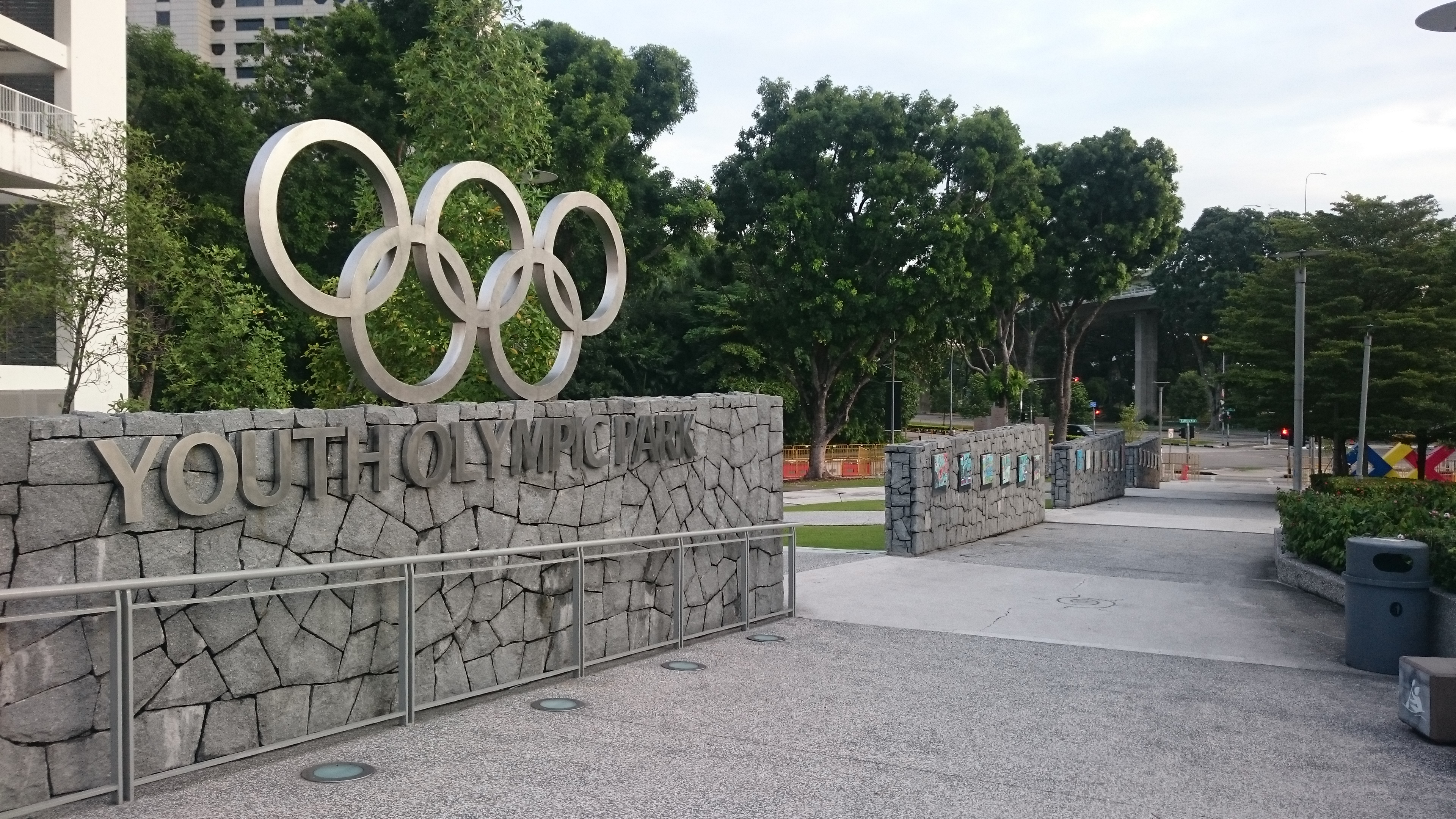 Youth Olympic Park, Singapore (2010)